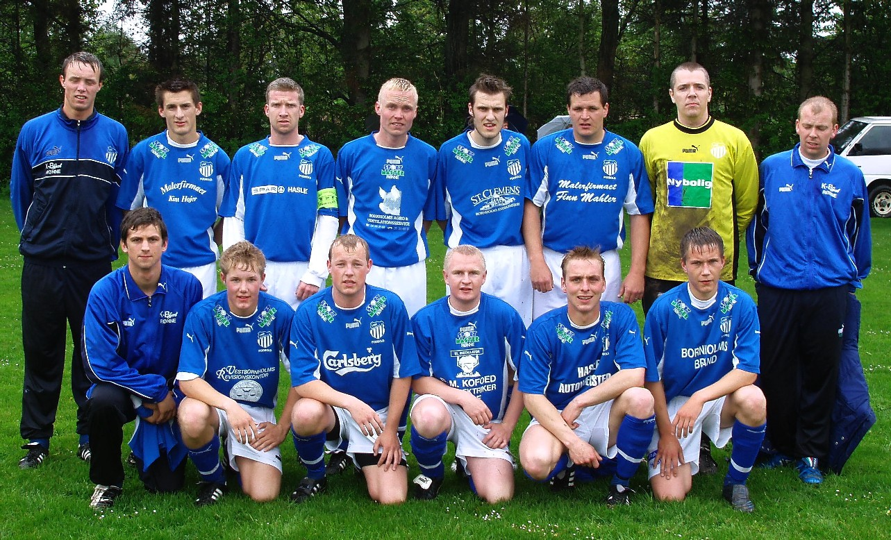 Hasle IF first team